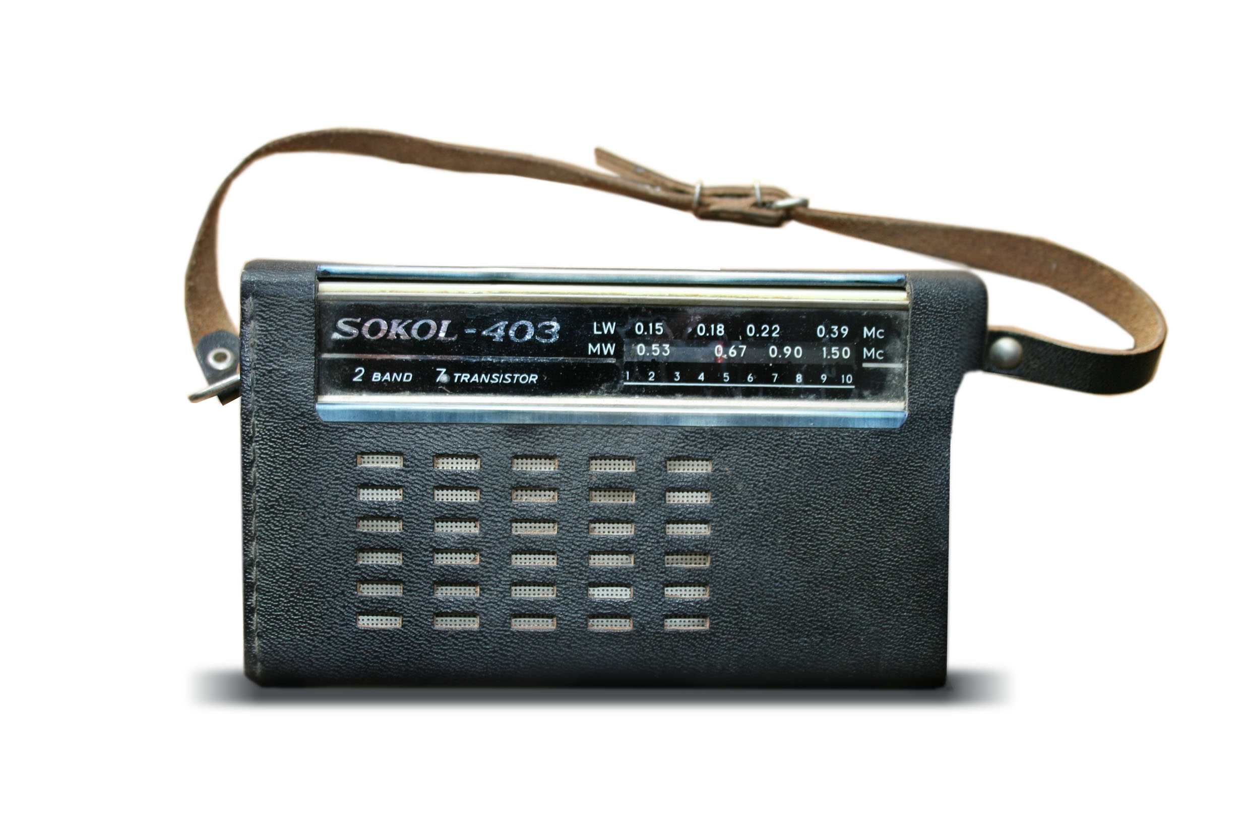 Sokol-403, portable radio receiver from USSR, Moscow Radio Factory, 1971